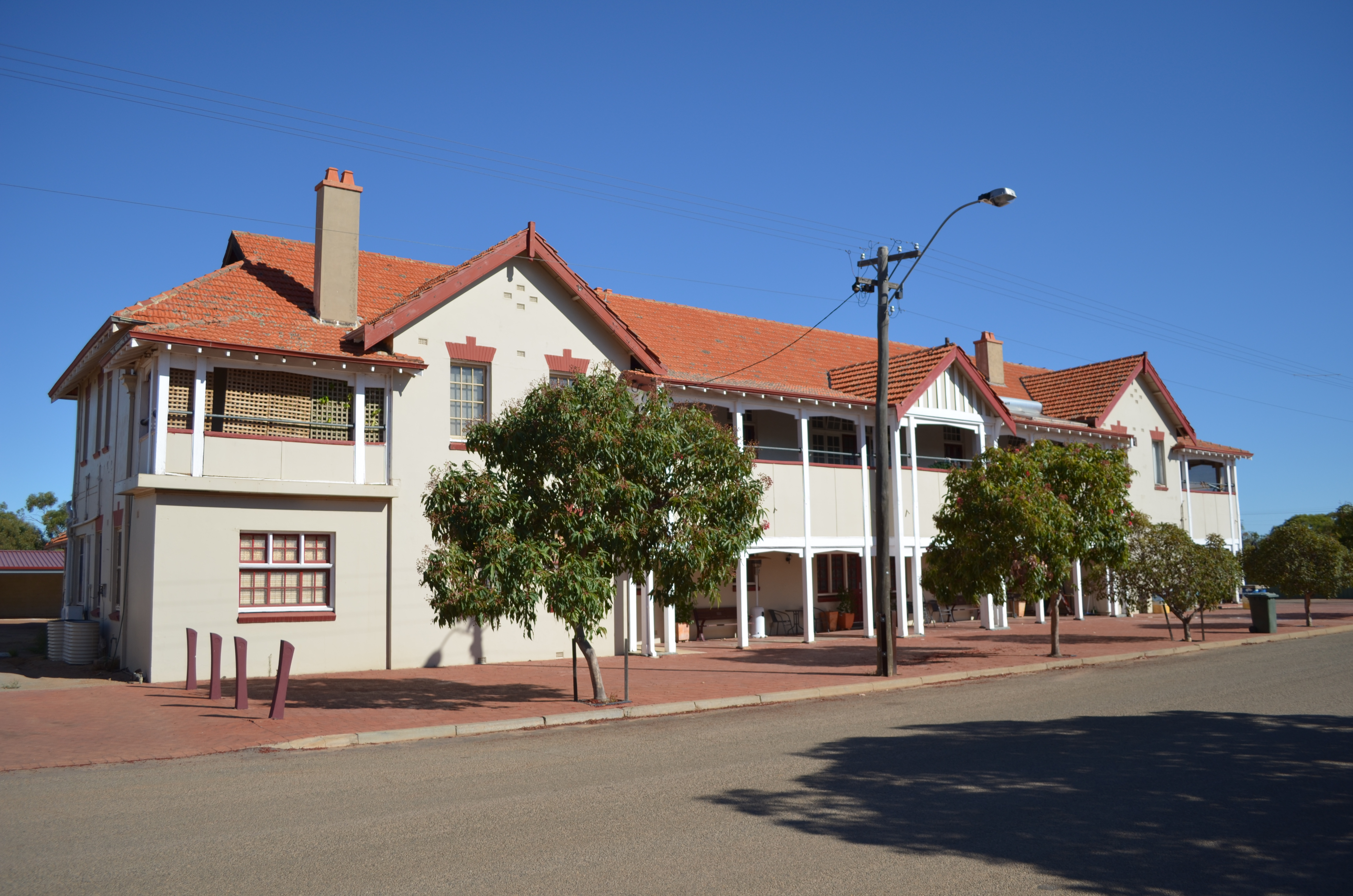 A view of the Coorow Hotel, 4 Main Street, Coorow, Western Australia.